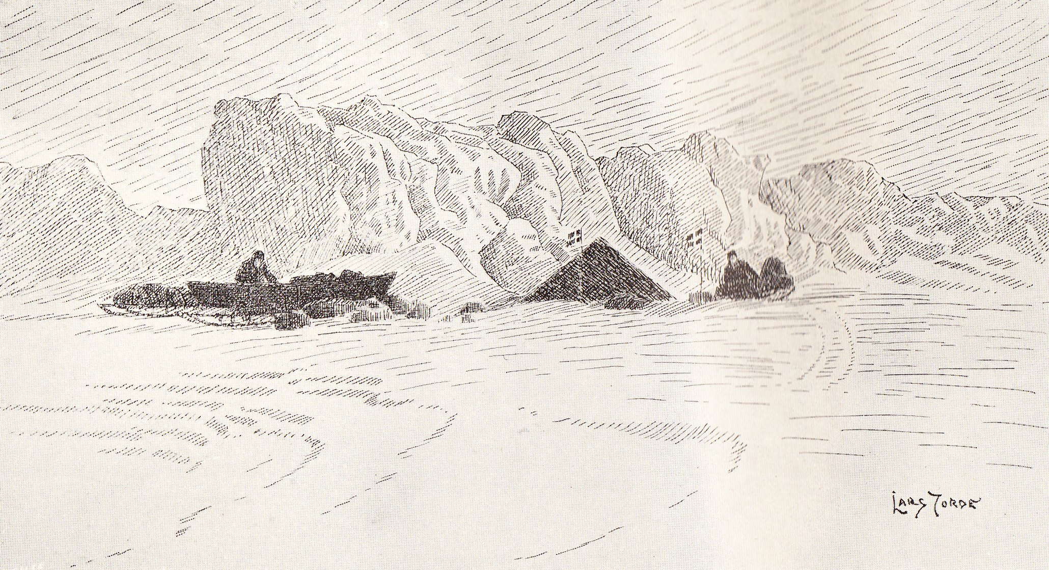 A depiction of the northenmost camp of Nansen and Johansen, 86°13.6'N, on their attempt to reach the North Pole, 8 April 1895